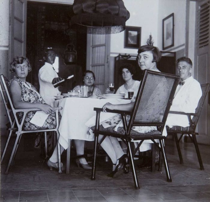 Rice table